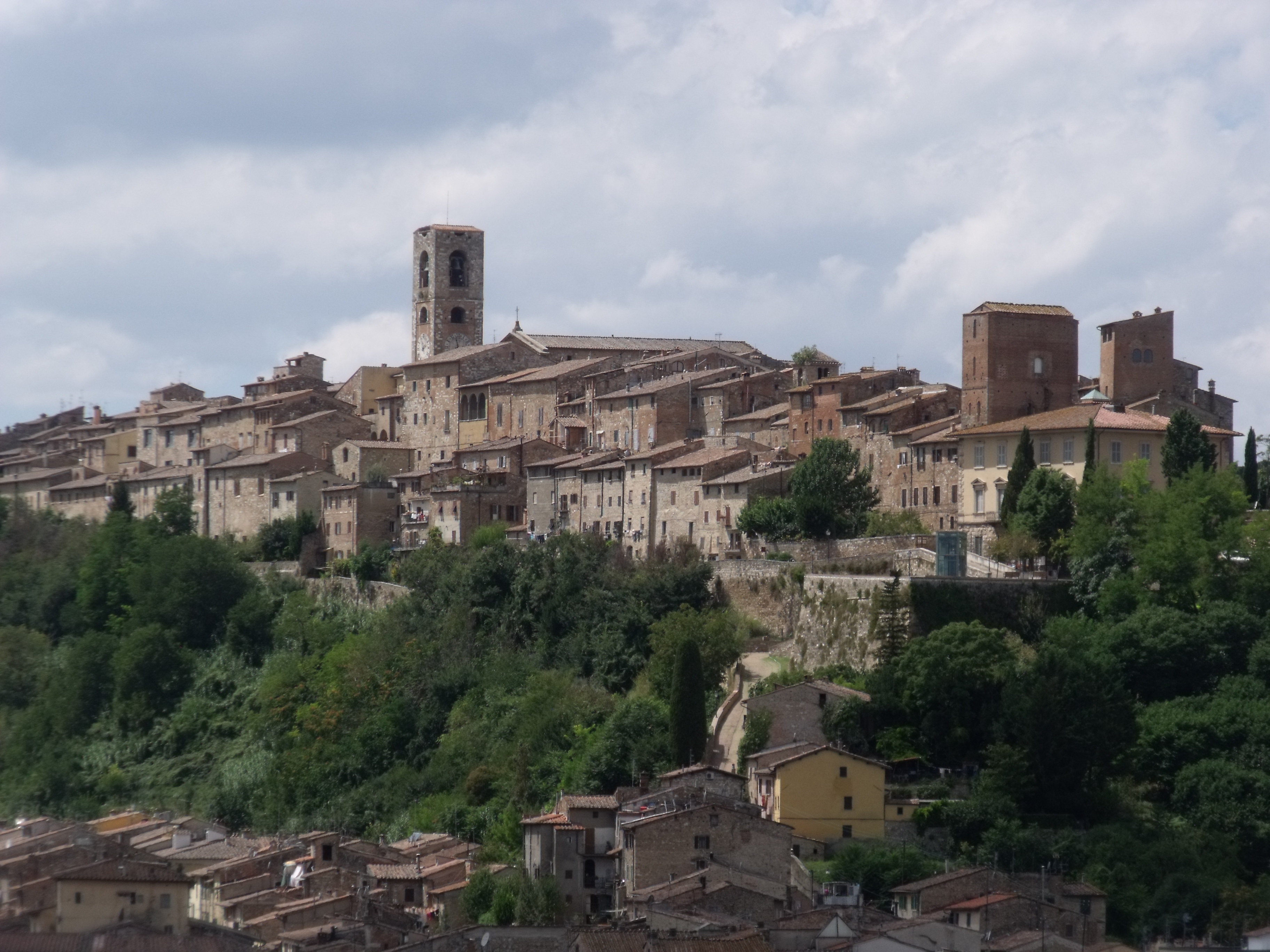 Panorama of Colle di Val d’Elsa, Province of Siena, Tuscany, Italy